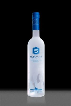 Picture of SAVVY Vodka Bottle